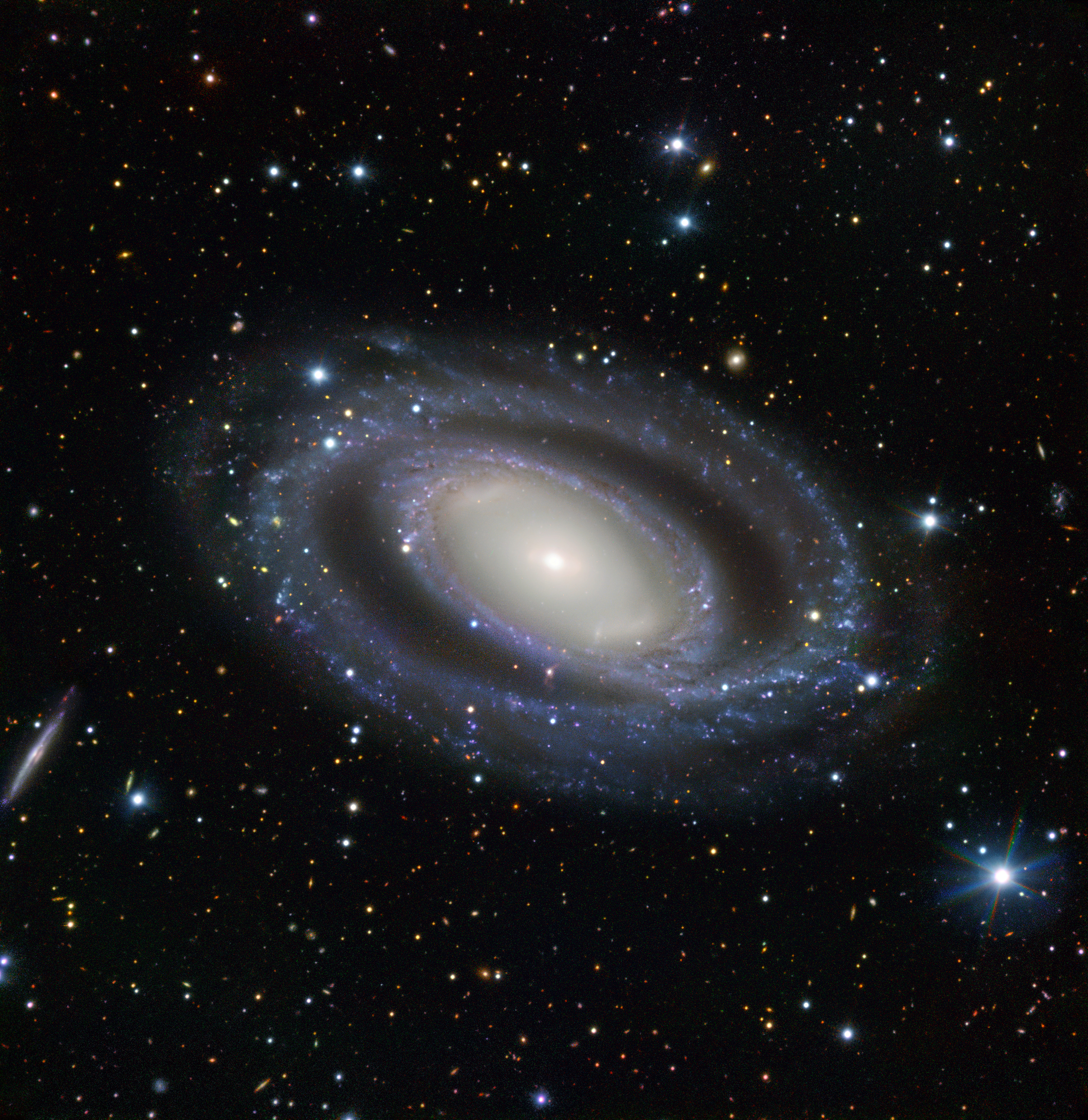 Approximately 95 million light-years away, in the southern constellation of Octans (The Octant), lies NGC 7098 — an intriguing spiral galaxy with numerous sets of double features. The first of NGC 7098’s double features is a duo of distinct ring-like structures that loop around the galaxy’s hazy heart. These are NGC 7098’s spiral arms, which have wound themselves around the galaxy’s luminous core. This central region hosts a second double feature: a double bar. NGC 7098 has also developed features known as ansae, visible as small, bright streaks at each end of the central region. Ansae are visible areas of overdensity — they commonly take looping, linear, or circular shapes, and can be found at the extremities of planetary ring systems, in nebulous clouds, and, as is the case with NGC 7098, in parts of galaxies that are packed to the brim with stars. This image is formed from data gathered by the FOcal Reducer and low dispersion Spectrograph (FORS) instrument, installed on ESO’s Very Large Telescope at Paranal Observatory. An array of distant galaxies are also visible throughout the frame, the most prominent being the small, edge-on, spiral galaxy visible to the left of NGC 7098, known as ESO 048-G007.